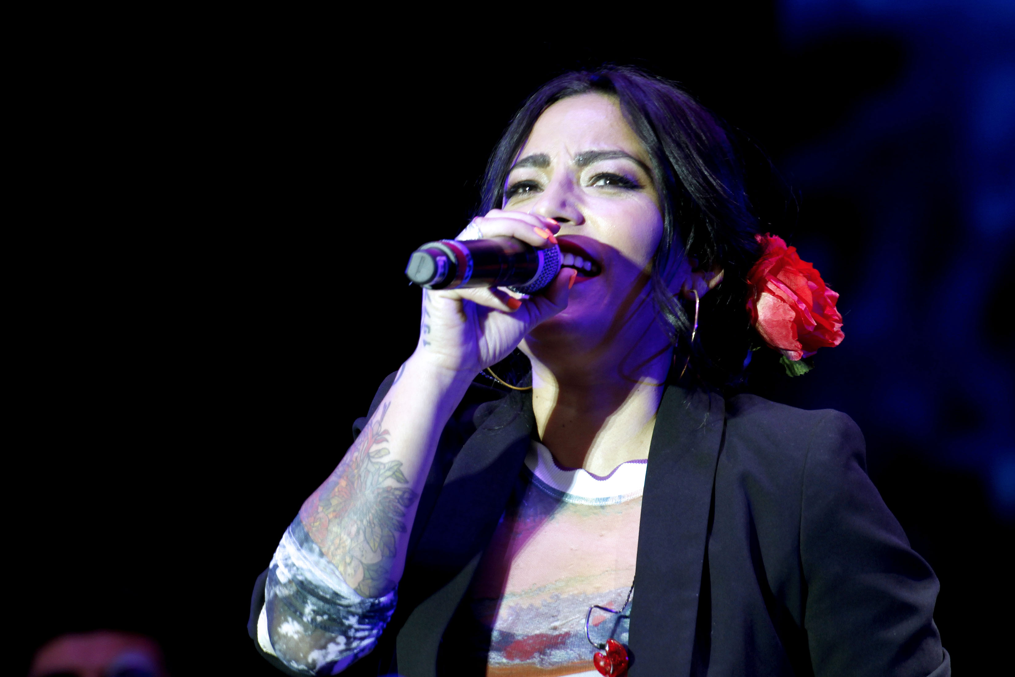 Saturday 7 March 2020 At the Zocalo in Mexico City and as part of the activities of the Women's Time Festival for Equality, a Massive concert was held with the singers and songwriters Mon Laferte (Mexico-Chile), Ana Tijoux (Chile) and Sara Curruchich (Guatemala). Photography: Maritza Ríos / Secretary of Culture of Mexico City.